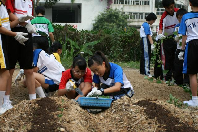 YOTTKP garden